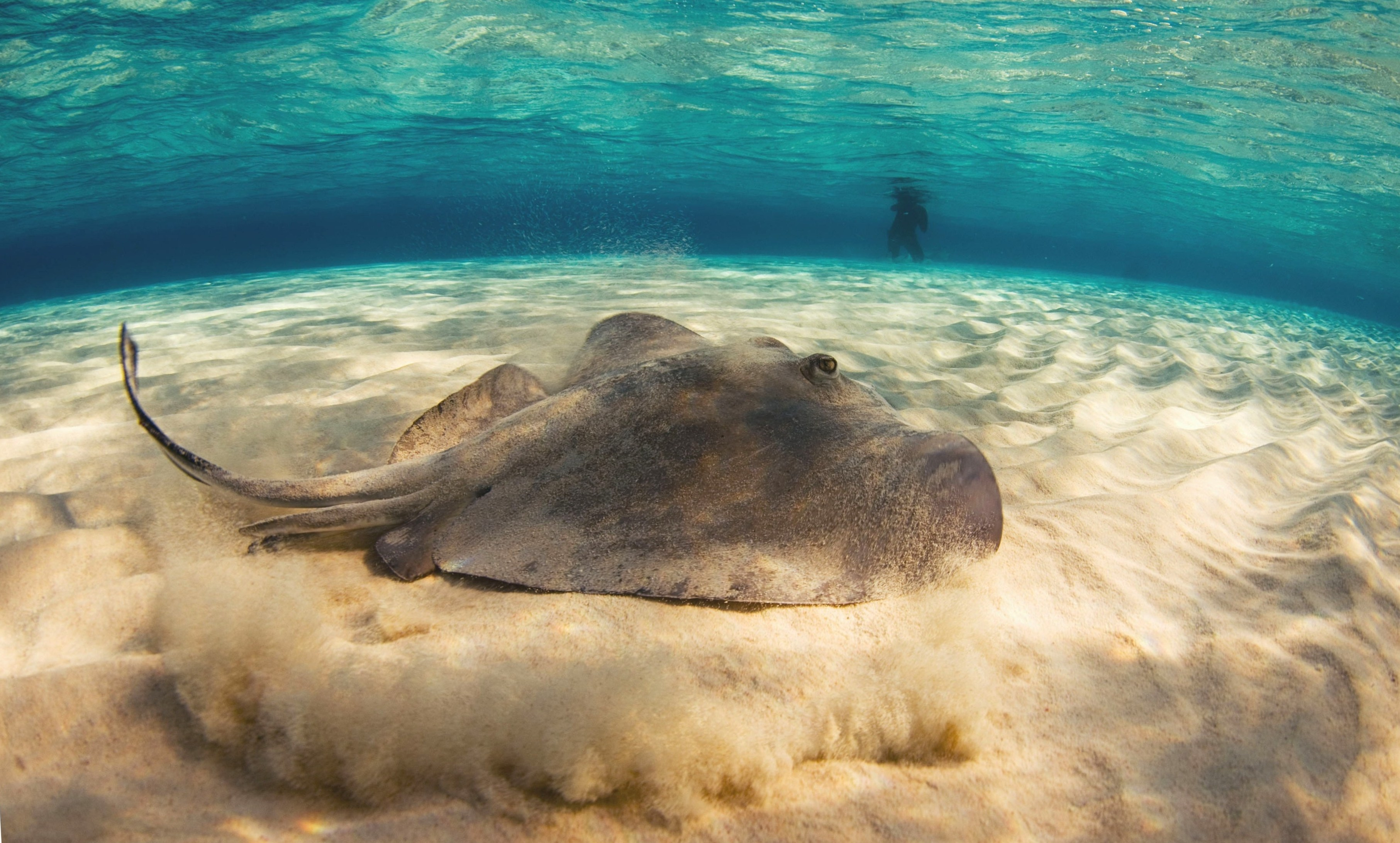 dasyatis americana grand cayman 2008